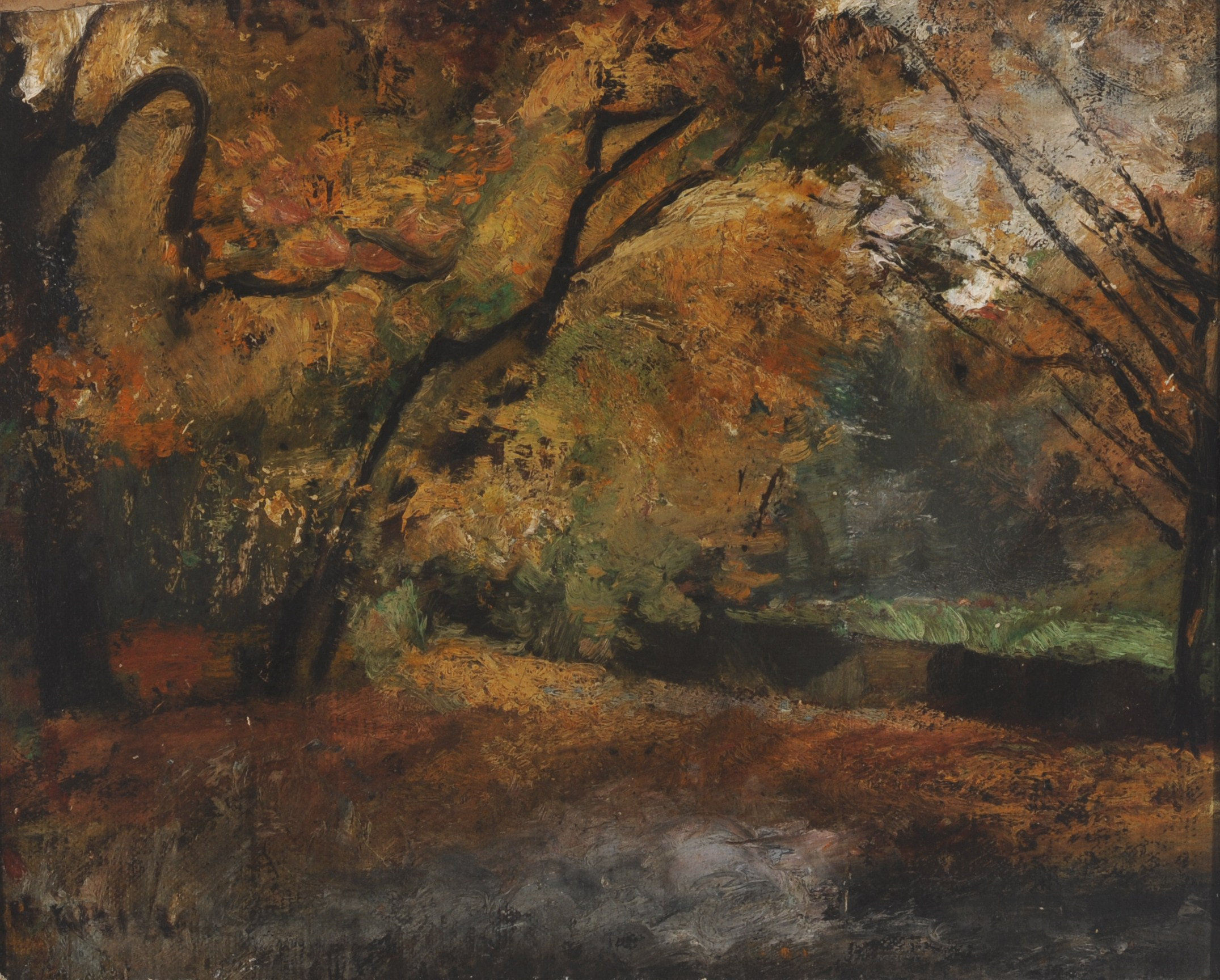 Berlin Zoo